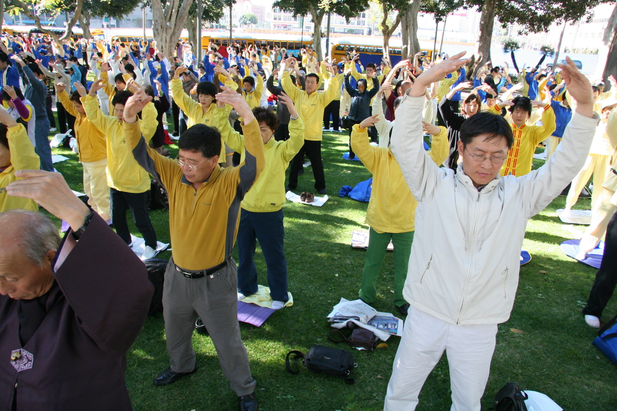 Los Angeles Parade and Activities March-02to03